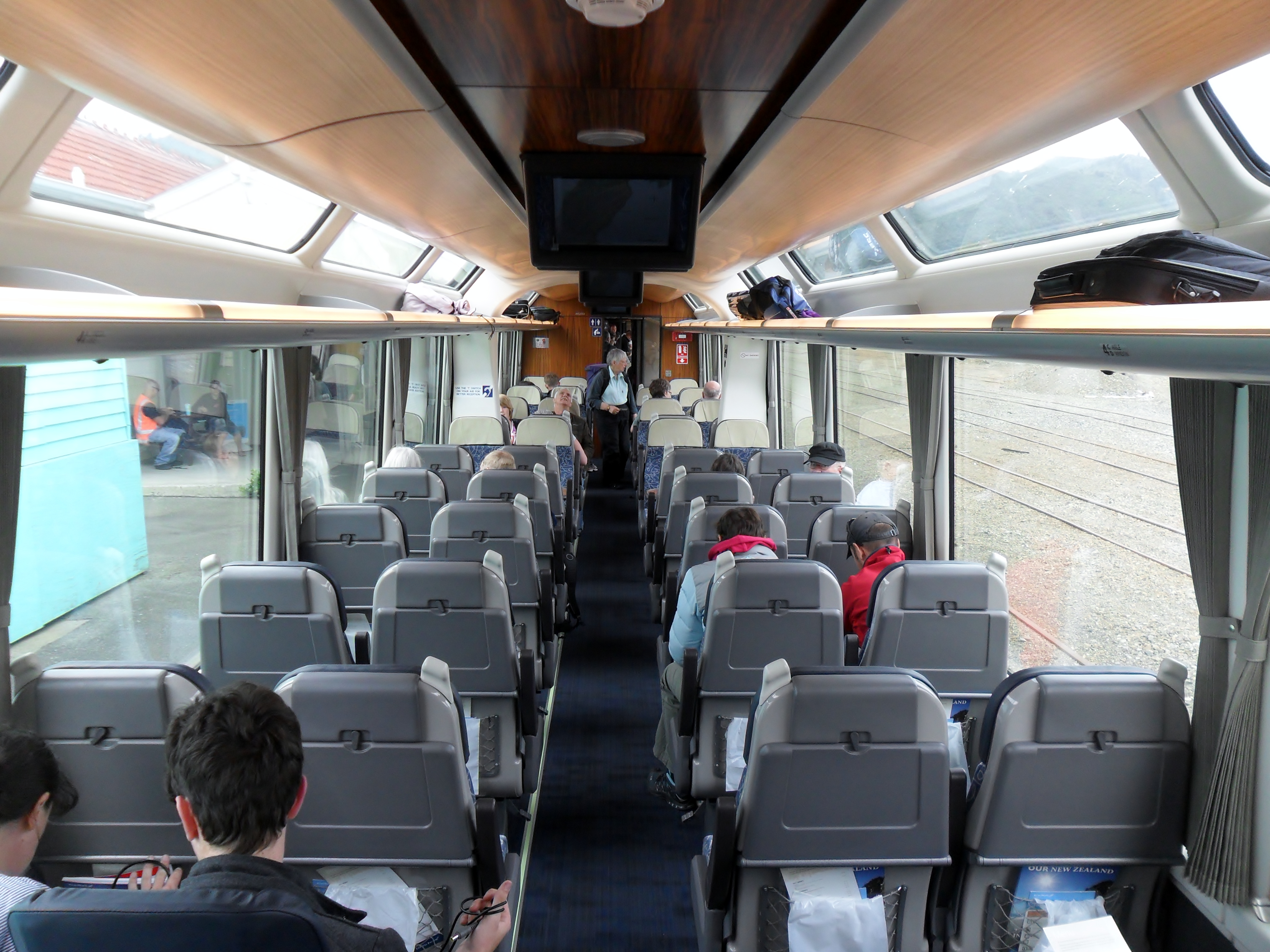 The passenger cabin of a New Zealand AK-class rail coach